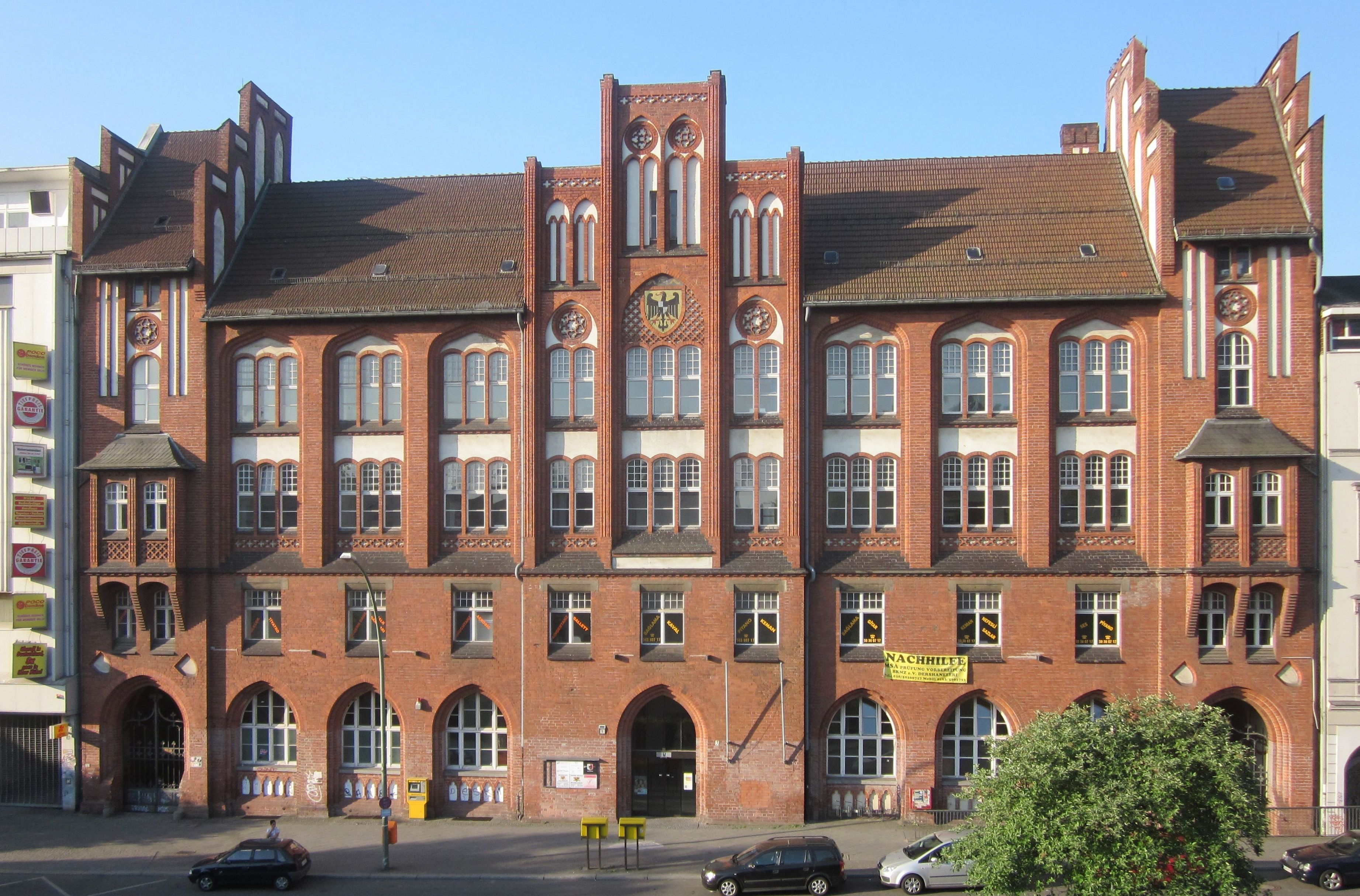 The former Post Office SW 61 at Tempelhofer Ufer No. 1 in Berlin-Kreuzberg, here seen from the elevated train station Hallesches Tor. The building was constructed from 1900 to 1901 to a design by Hermann Struve. It has been designated as a cultural heritage monument.